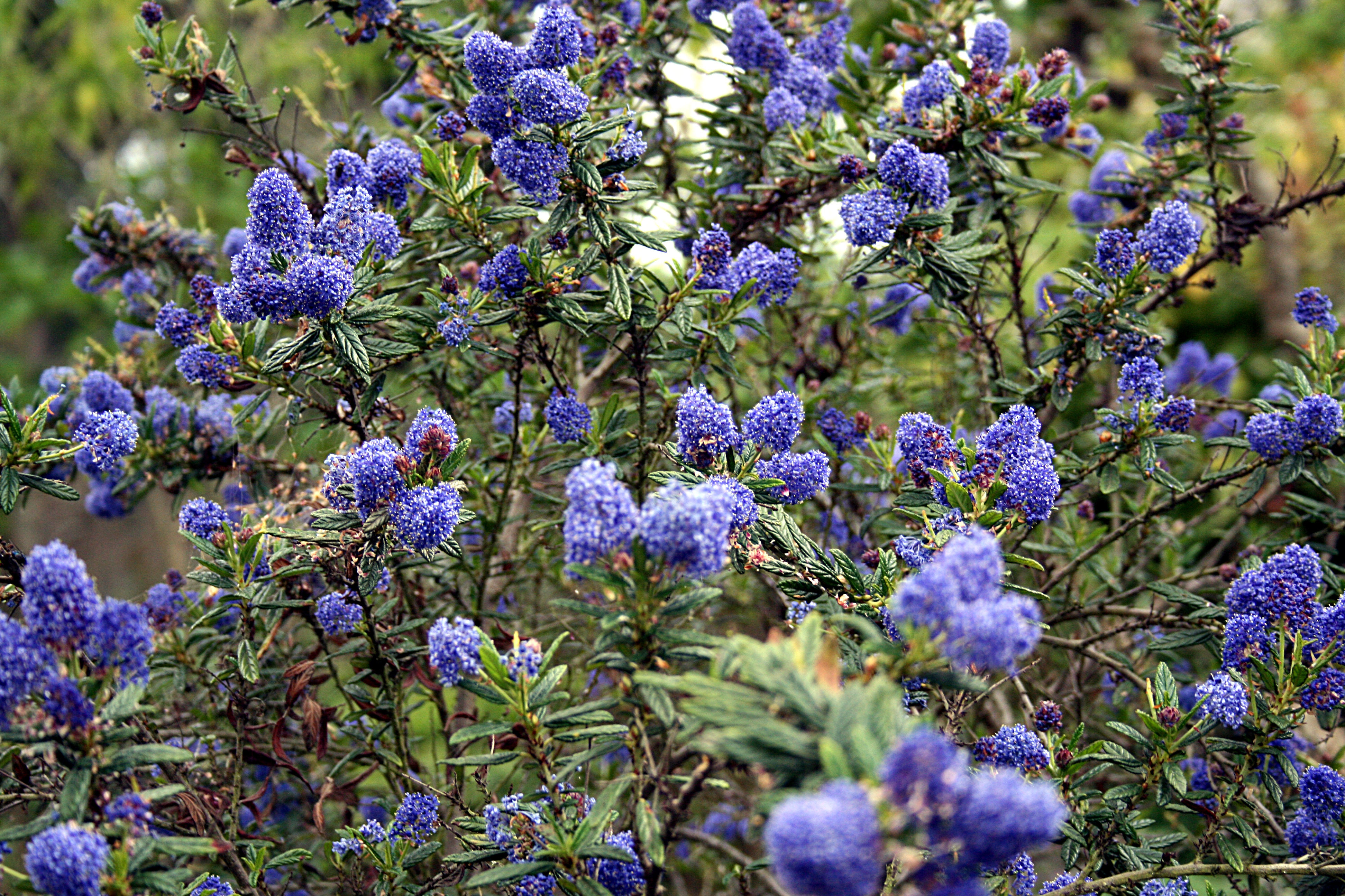 Ceanothus thyrsiflorus — Blueblossom ceanothus. Native to California chaparral and woodlands habitat, California, U.S. Specimen in the Gardens of Quinta do Palheiro, Funchal, Madeira.